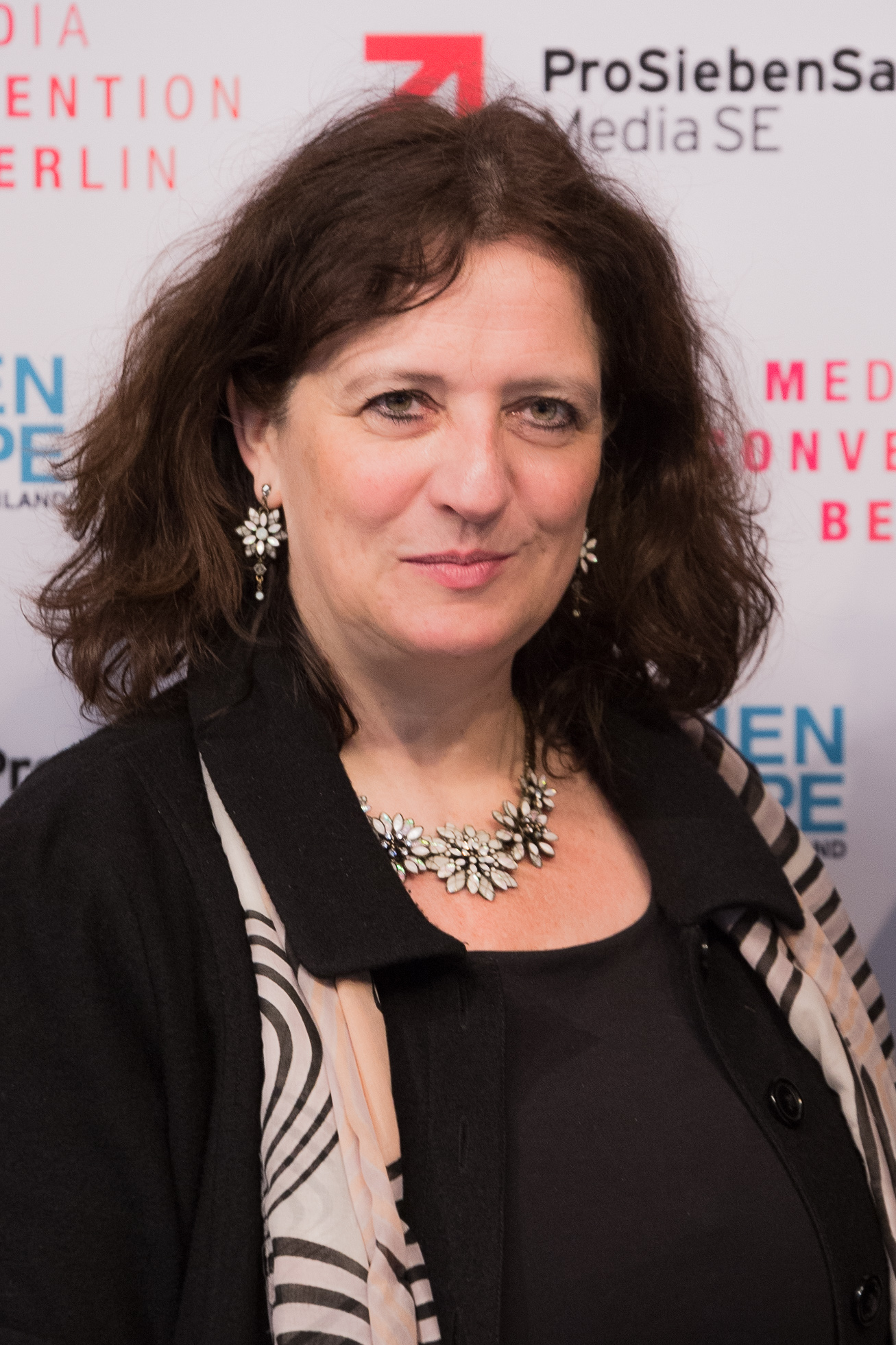 Anja Zimmer at the Re:publica 17